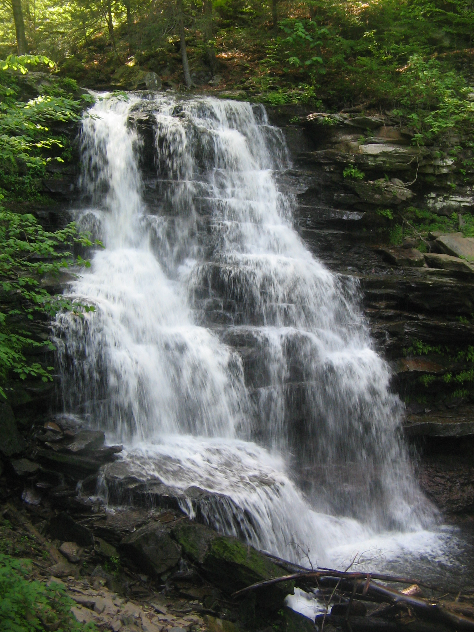 Erie Falls (47 feet (14.3 m) tall) on Kitchen Creek in Ricketts Glen State Park, Fairmount Township, Luzerne County, Pennsylvania, USA. It is the first of ten named waterfalls in Ganoga Glen on Kitchen Creek, going upstream, and one of twenty two named waterfalls in the park, according to the Pennsylvania Department of Conservation and Natural Resources.